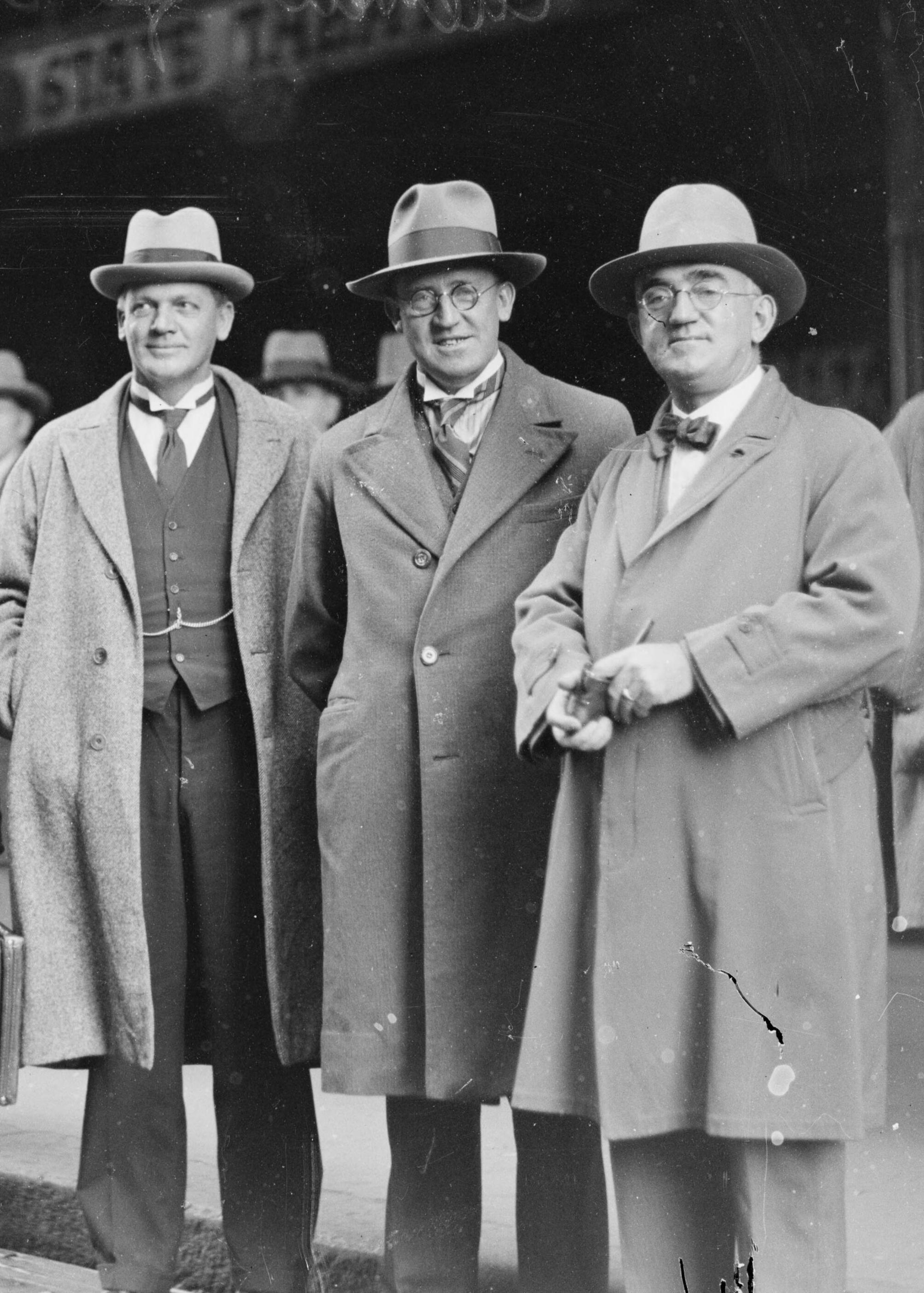 Delegates to the 1933 ALP Federal Conference in Sydney: John Madden (Tasmania) Bill Colbourne (New South Wales) Gordon Brown (Queensland) Arthur Calwell (Victoria) William Forgan Smith (Queensland)